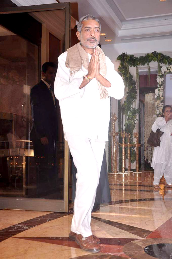 Prakash Jha at Rajesh Khanna's prayer meet